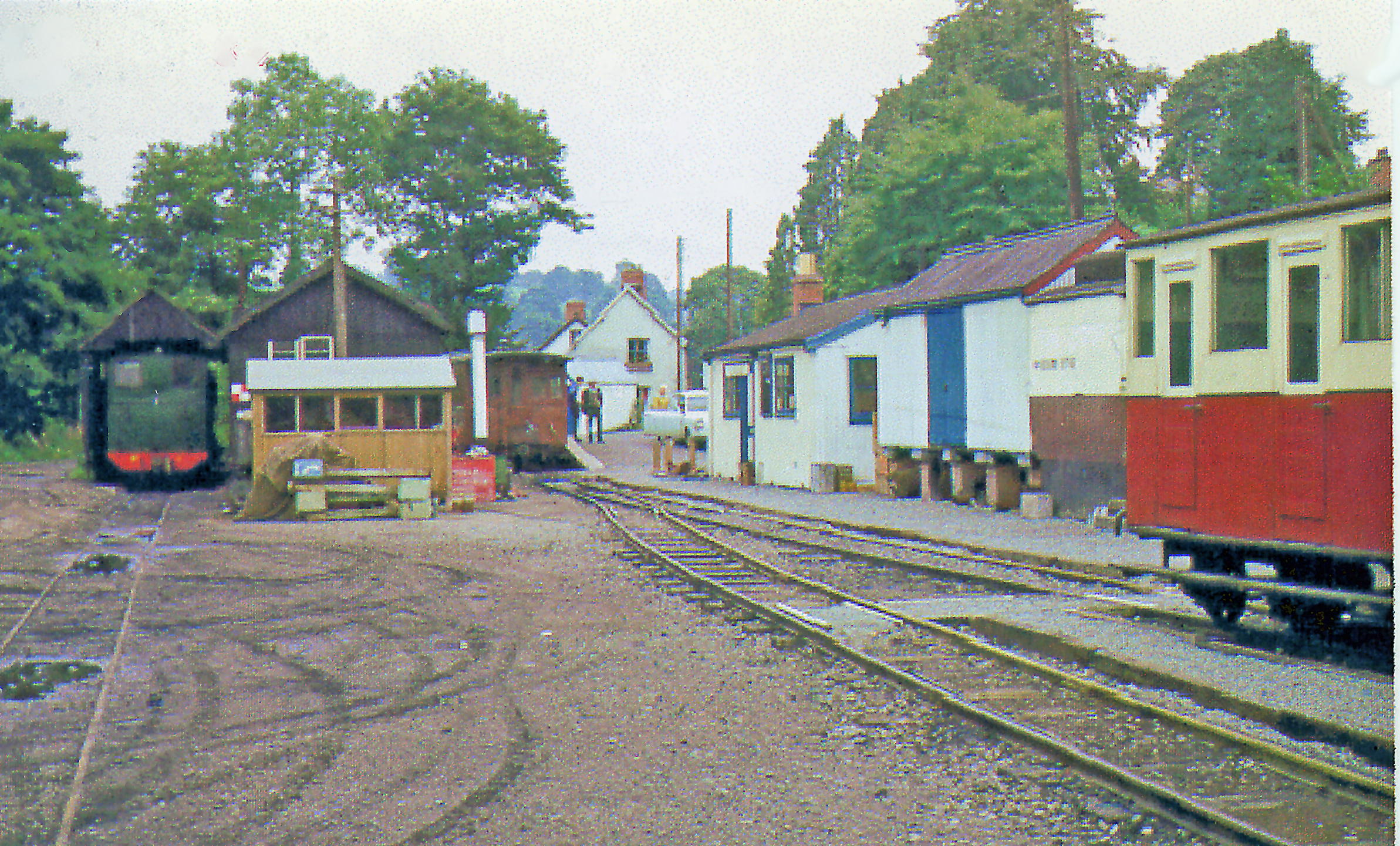 Llanfair Caereinion: Welshpool & Llanfair station yard, 1968. View SW towards the buffer-stops: terminus of ex-GWR (Cambrian Railways 2 ft. 6 in. light railway) from Welshpool, which carried passengers until 1931, then under BR(WR) goods until 11/56. Acquired by Preservation Society and reopened 6/4/63 at this end, just from Castle Caereinion (later from Sylfaen) and from 7/81 from Welshpool (Raven Square).